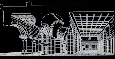 Torii_(Tokutoshi)_Taipei,_Cathay_Finacial_Center_Building_1995-97,_Hall